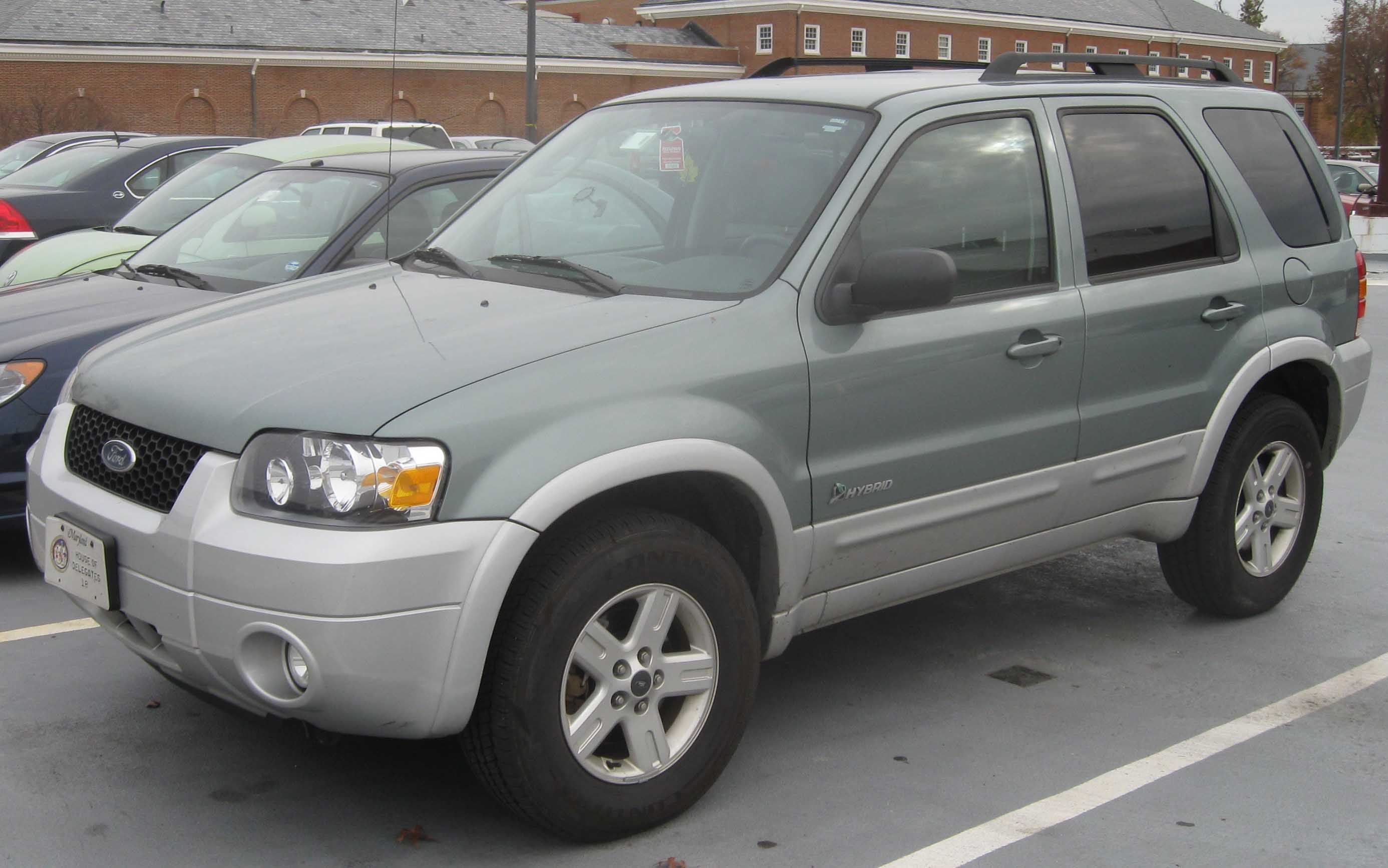 2005-2007 Ford Escape Hybrid photographed in College Park, Maryland, USA.